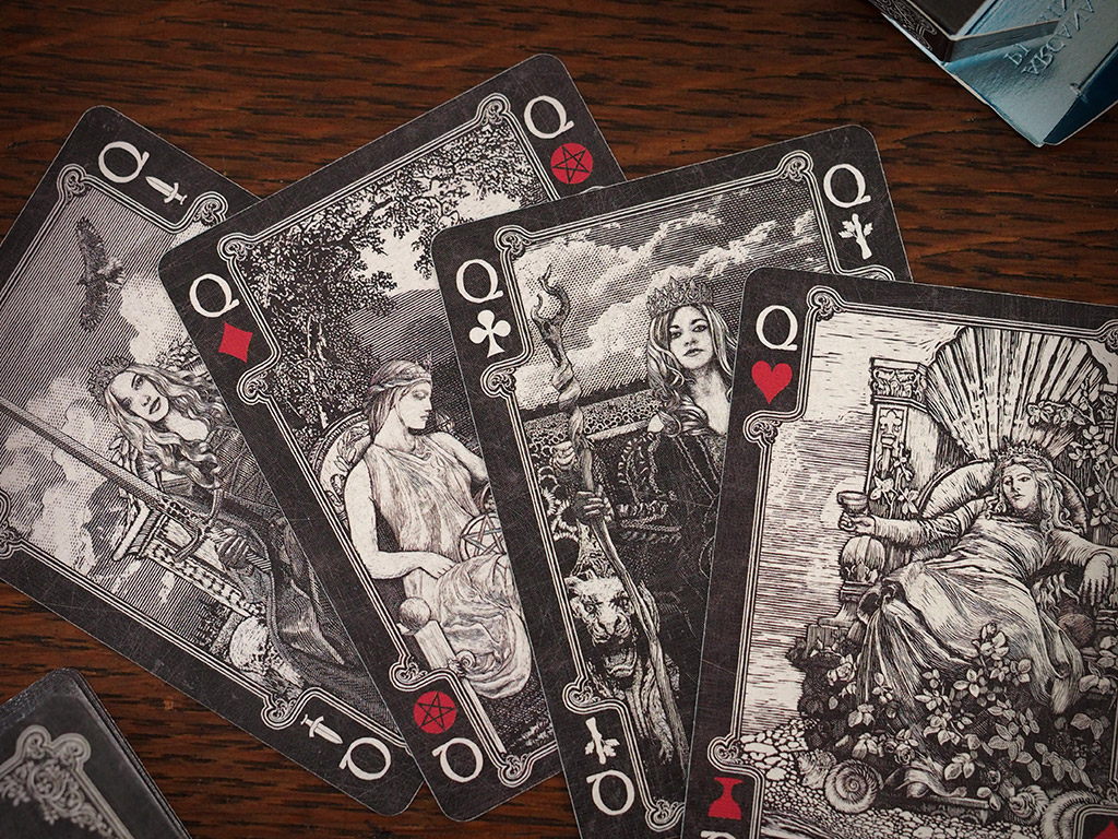 A sampling of Arcana Playing Cards by Chris Ovdiyenko